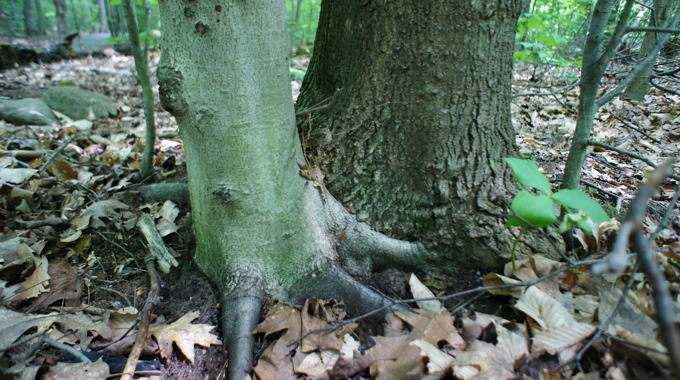 In a Beech-Maple Forest, the two distinct trees grow together seamlessly.